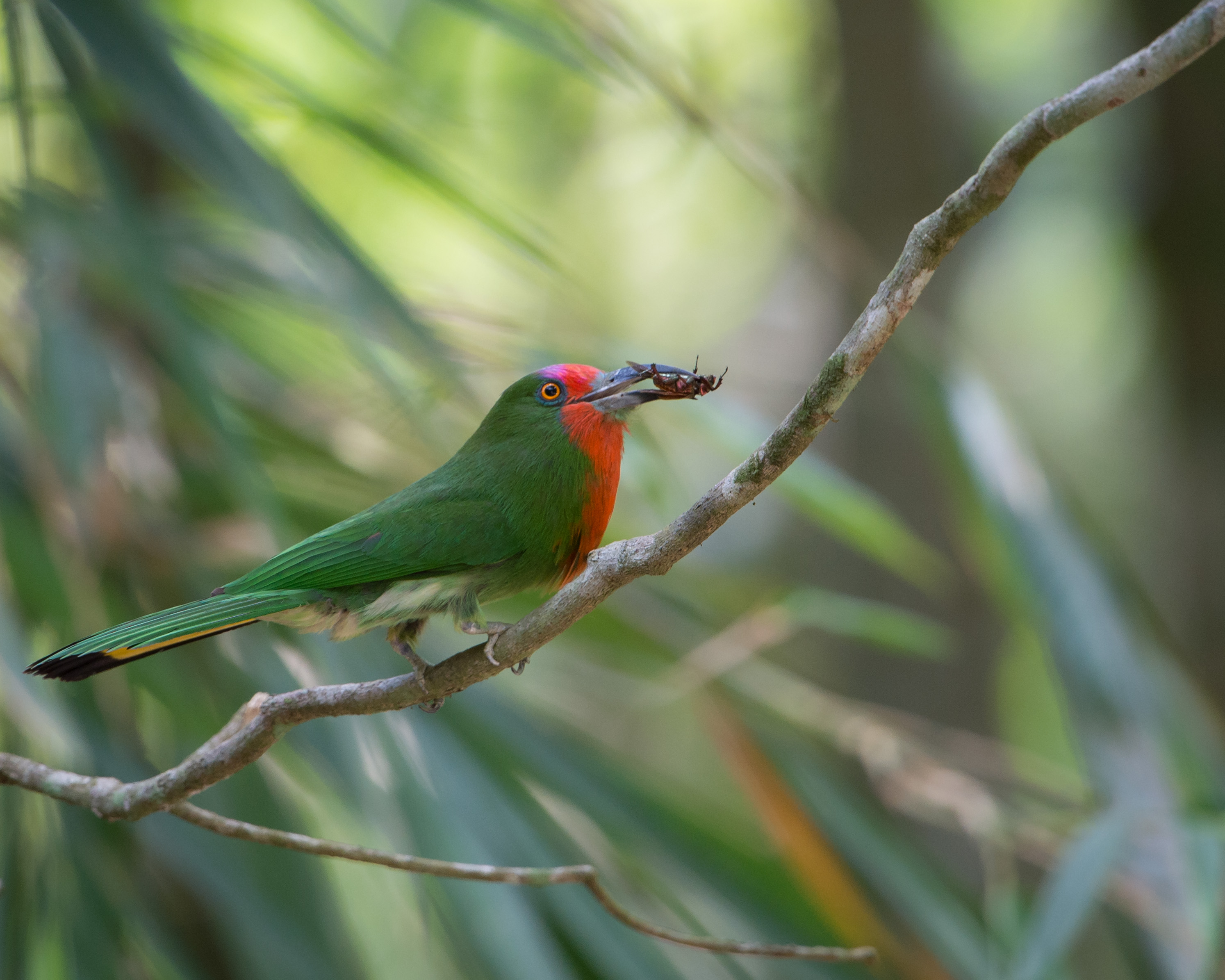 Female of Red-bearded Bee-eater (Nyctyornis amictus) at Kaeng Krachan National Park, Phetchaburi, ThailandBahasa Indonesia: Betina cirik-cirik kumbang (Nyctyornis amictus) di Taman Nasional Kaeng Krachan, Phetchaburi, Thailand